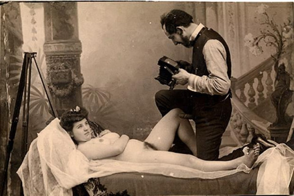 Pornographic photography in 1910s.